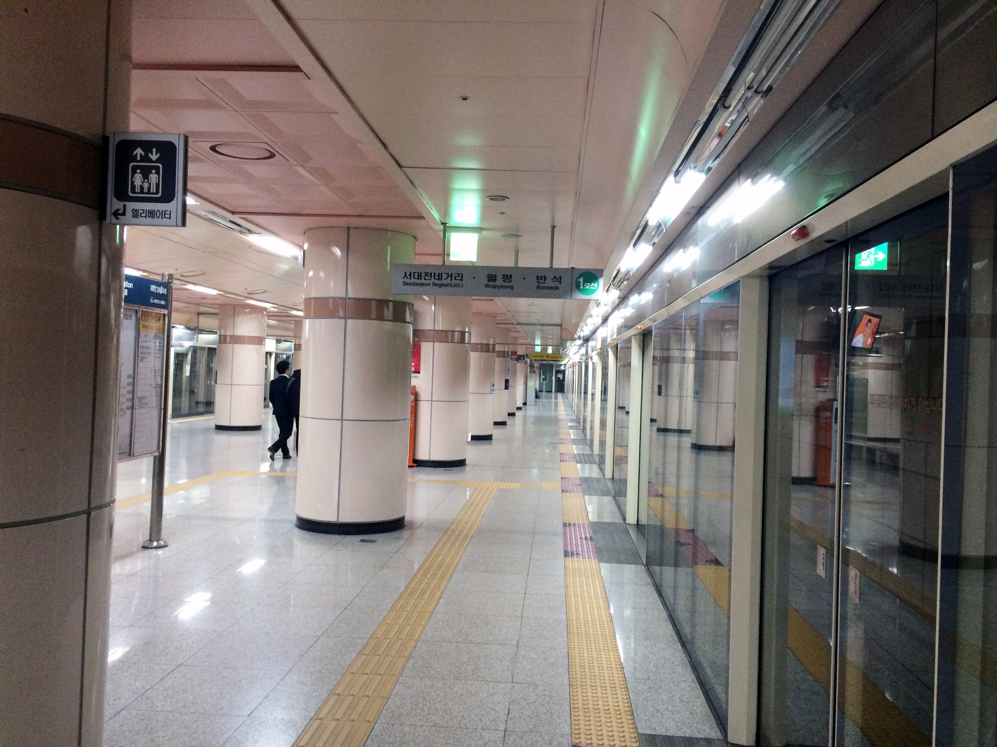 Platform of Jung-gu Office Station